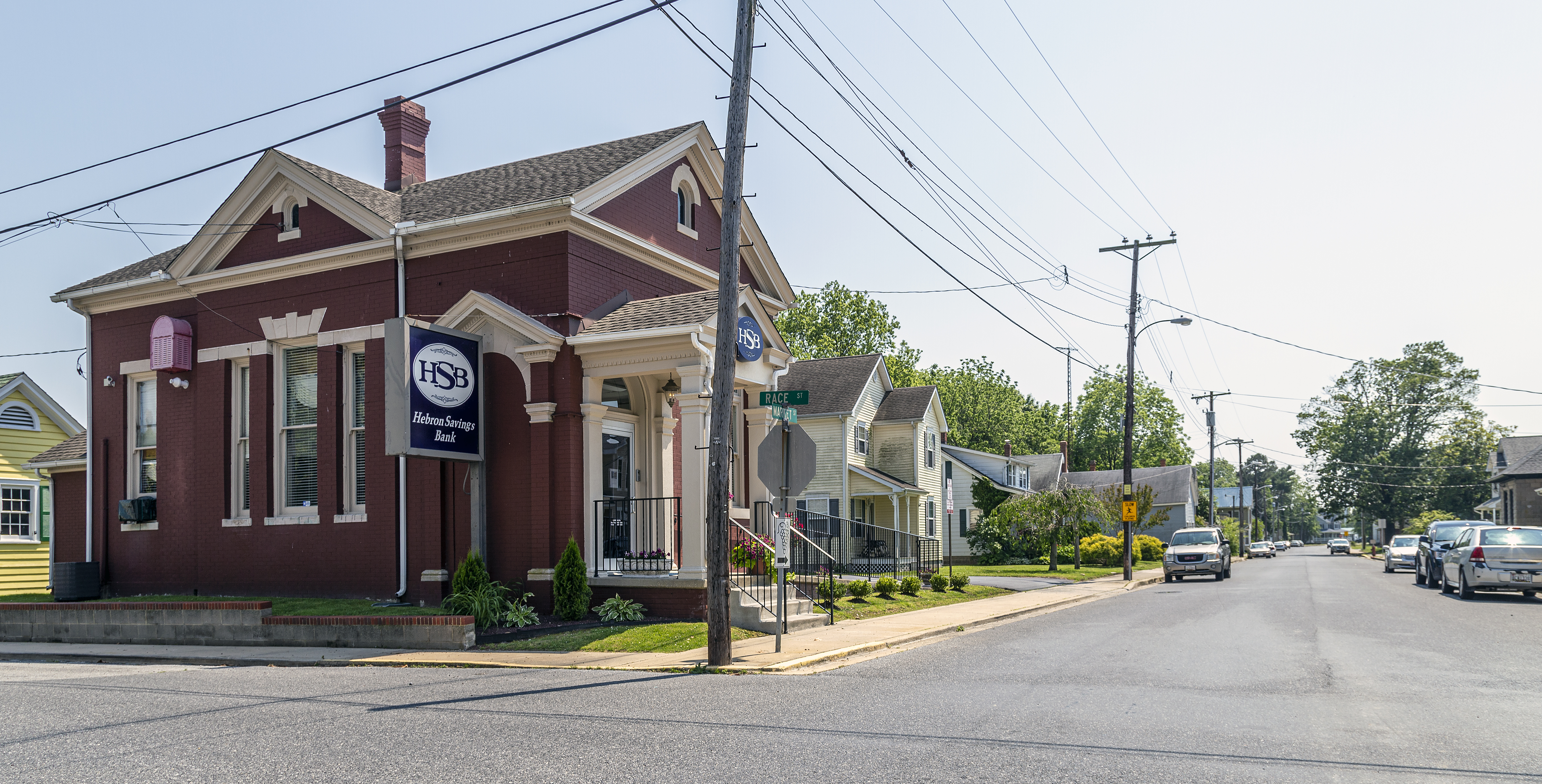 Intersection of Market and Race Streets in Vienna, Maryland, USA